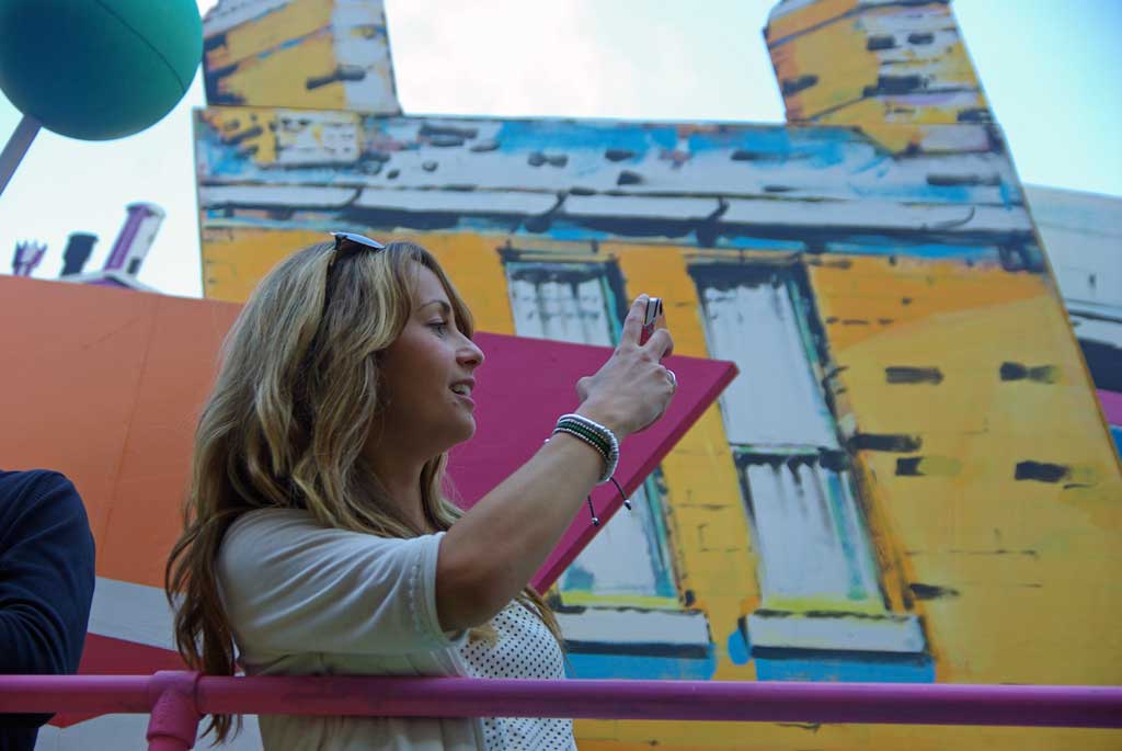 Samia Smith, who plays character Maria Connor, on the Coronation Street float at Manchester Pride